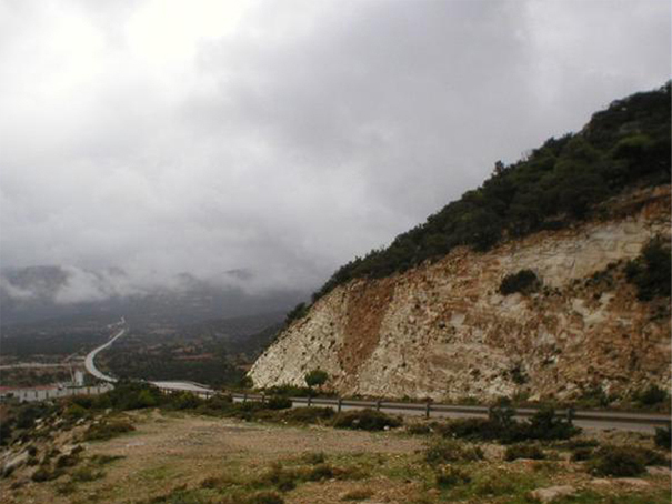 The Jabal Al Akhdhar mountain foothills, and a road, in the northeastern Cyrenaica region of eastern Libya.